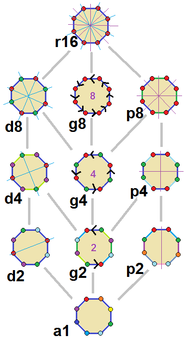 Symmetries of a regular octagon, with markups Reproduced from "The Symmetries of Things", Figure 20.6, Types of Octagons The regular octagon has Dih8 dihedral symmetry, order 16, and 10 lower dihedral and cyclic symmetries. The dihedral symmetries are divided depending on whether they pass through vertices (d for diagonal) or edges (p for perpendiculars) Cyclic symmetries in the middle column are labeled as g for their central gyration orders.